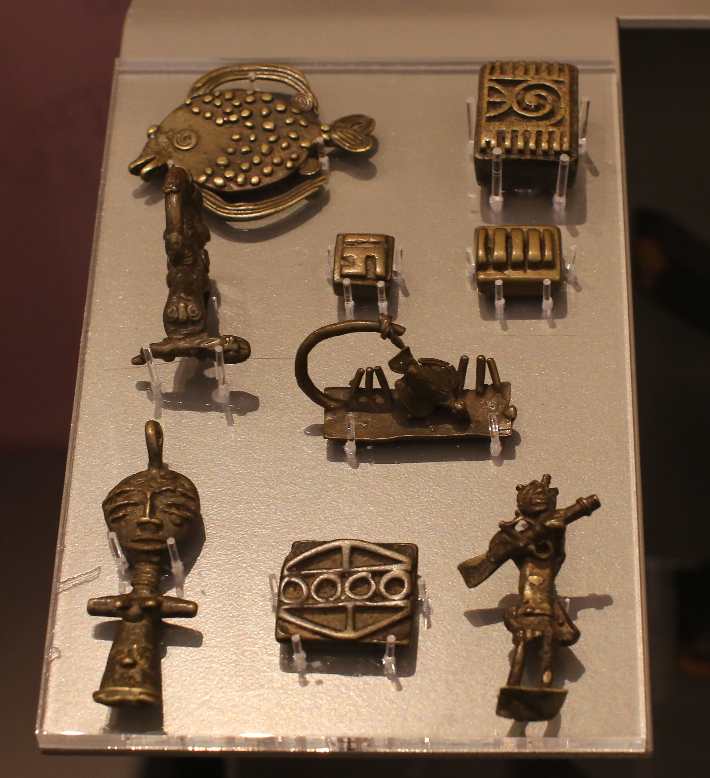 Akan goldweights specifically produced by the Ashanti in the collection of the Beaney House of Art and Knowledge